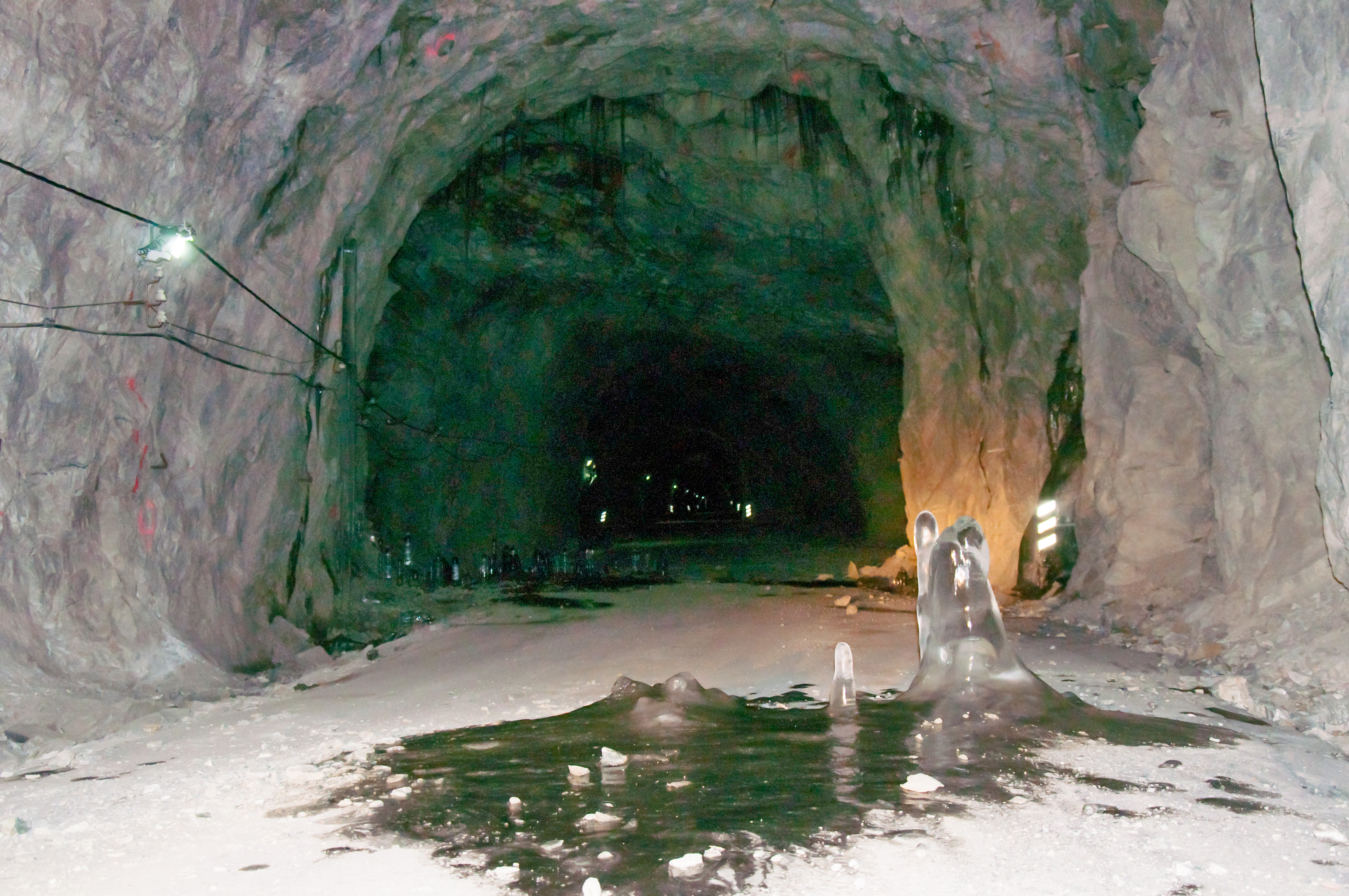 Kjeåstunnelen. We didn`t get any longer then this, the ice blocked the road.